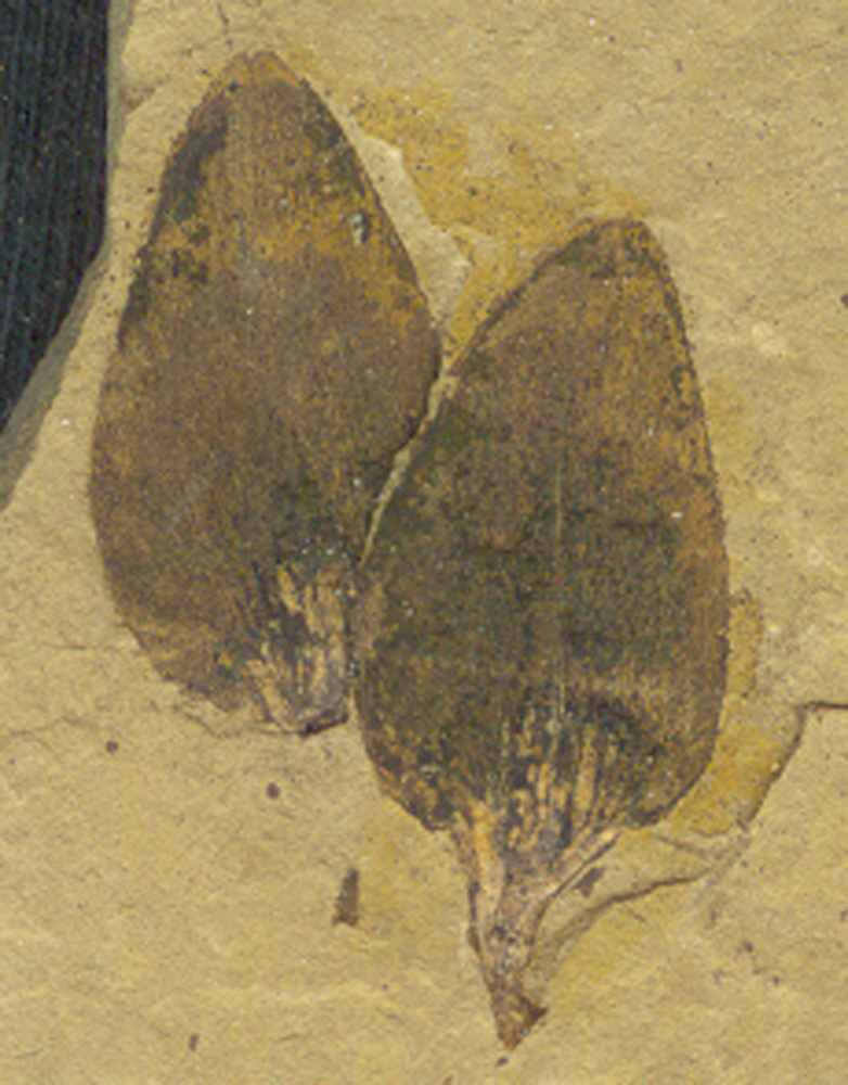 A pair of ~2.5cm tall Conescales from the extinct Pseudolarix wehrii. ~49.5 million years old. Early Ypresian, Klondike Mountain Formation, Republic, Ferry County, Washington, USA. Stonerose Interpretive Center # SR 06-19-03.